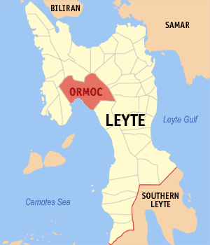 Map of Leyte showing the location of Ormoc City